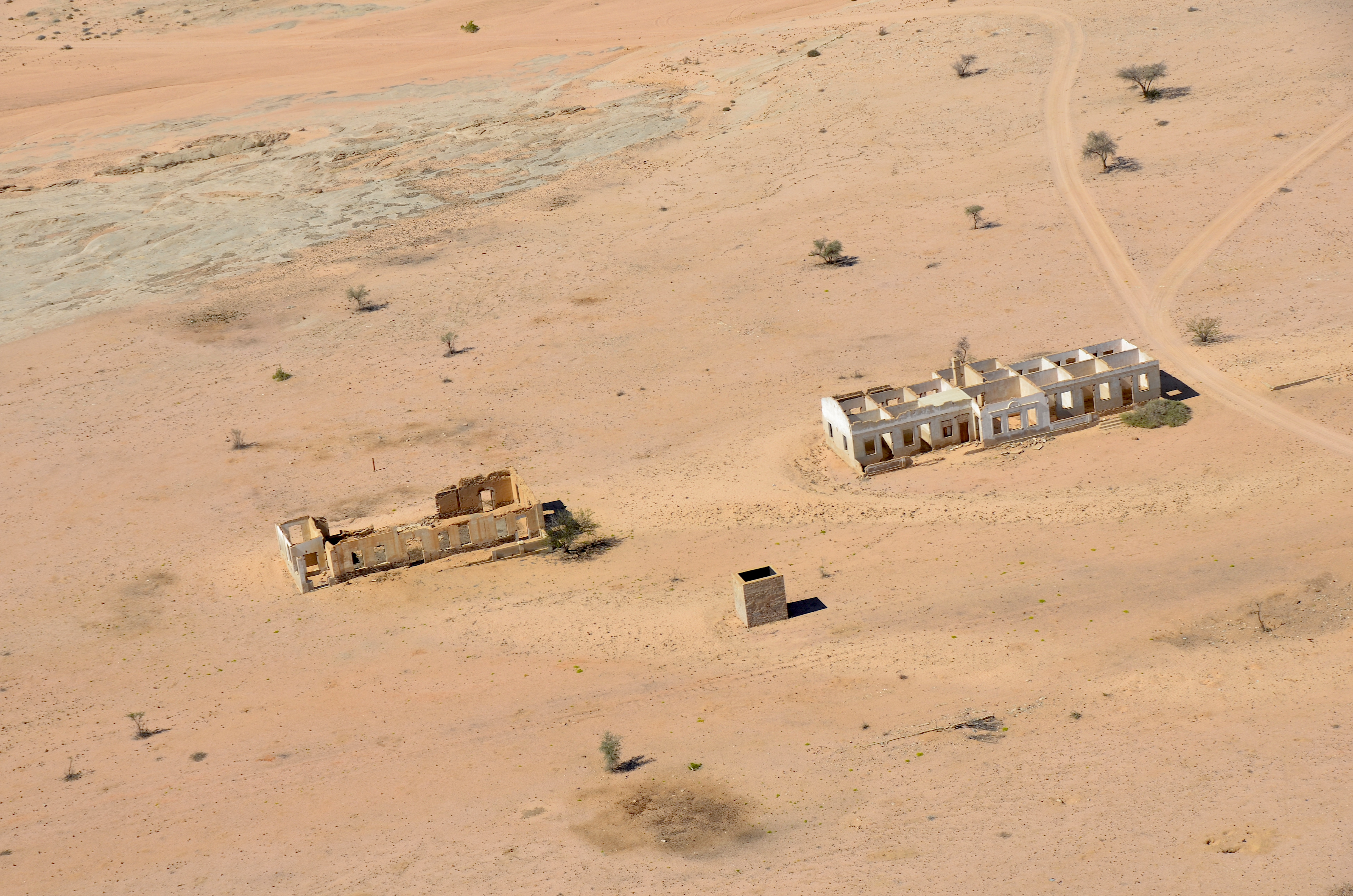 Old Railwaystation Jakalswater from bird's eye view (2017)